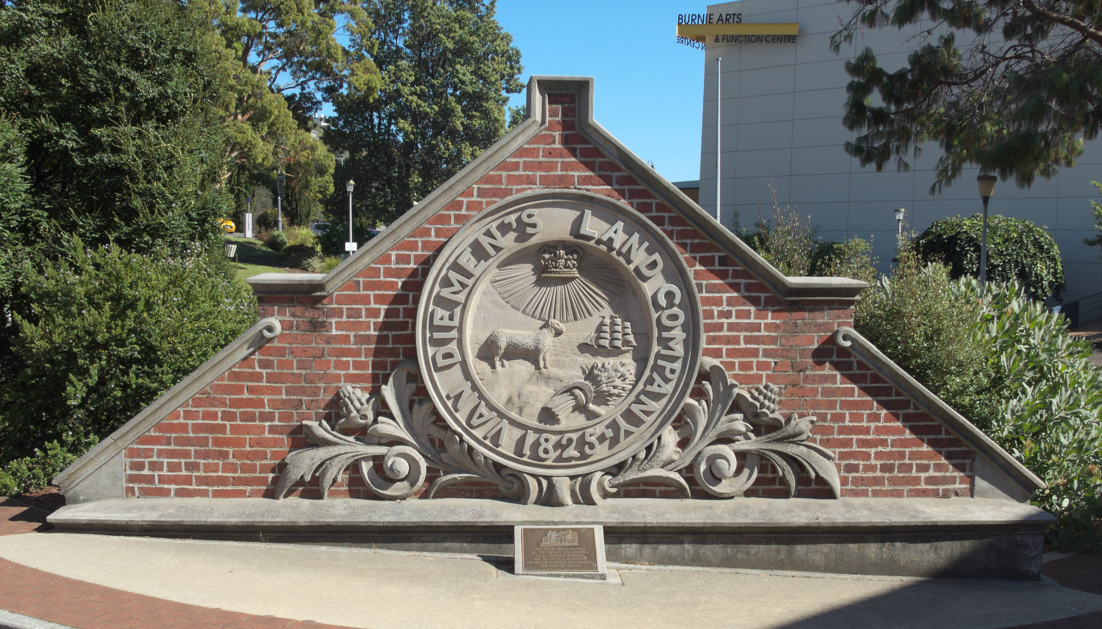 Crest of the Van Diemen's Land Company on display in Little Alexander Street outside the Burnie Regional Museum. According to the plaque it was originally on the company's building in Marine Terrace overlooking the port. I think it was a warehouse constructured during 1901 [1] and demolished in 1976 [2], apparently at the location of the present Metro Cinemas [3].